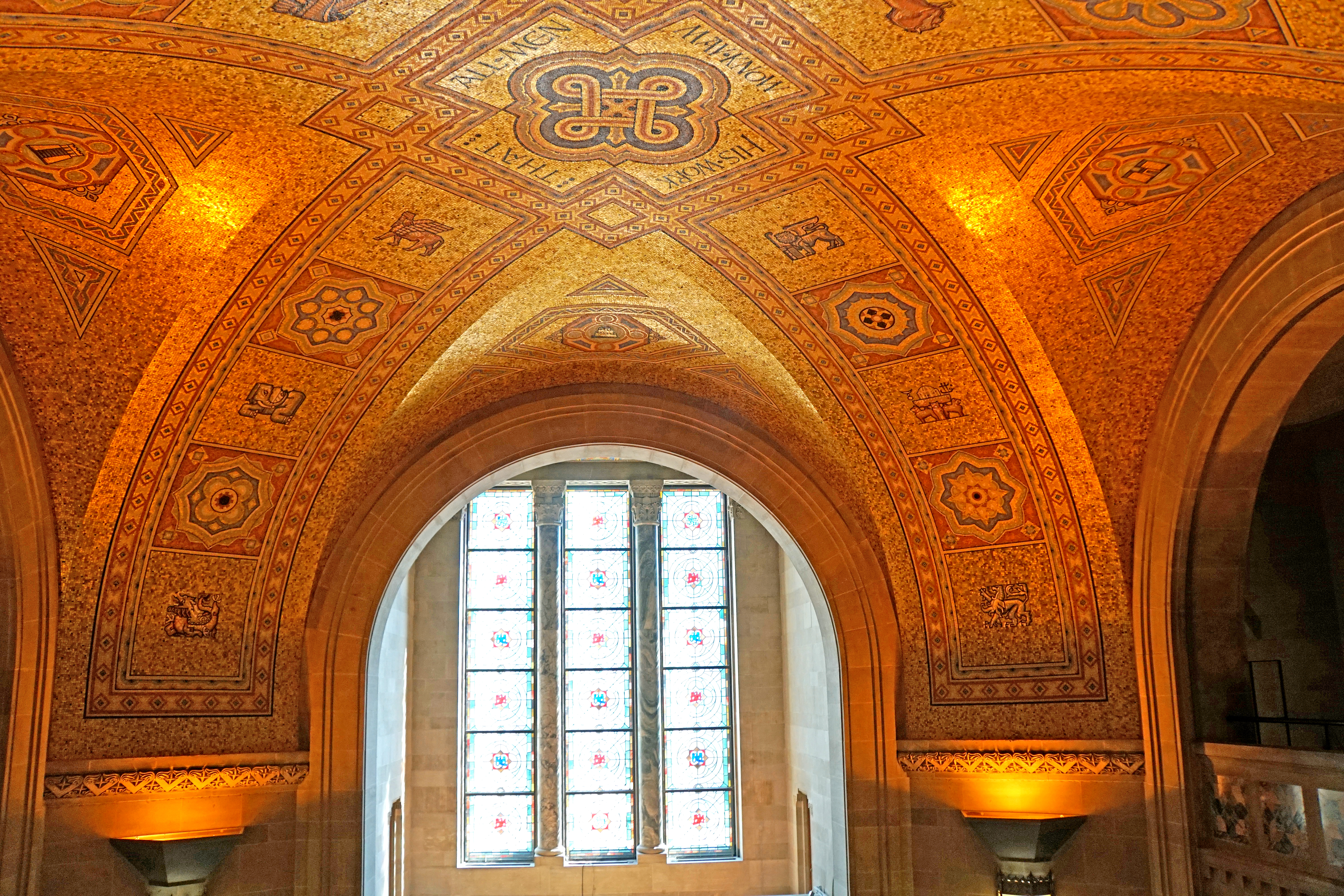 Beautiful mosaic ceiling near the entrance of the museum.